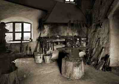 historical forge, Germany